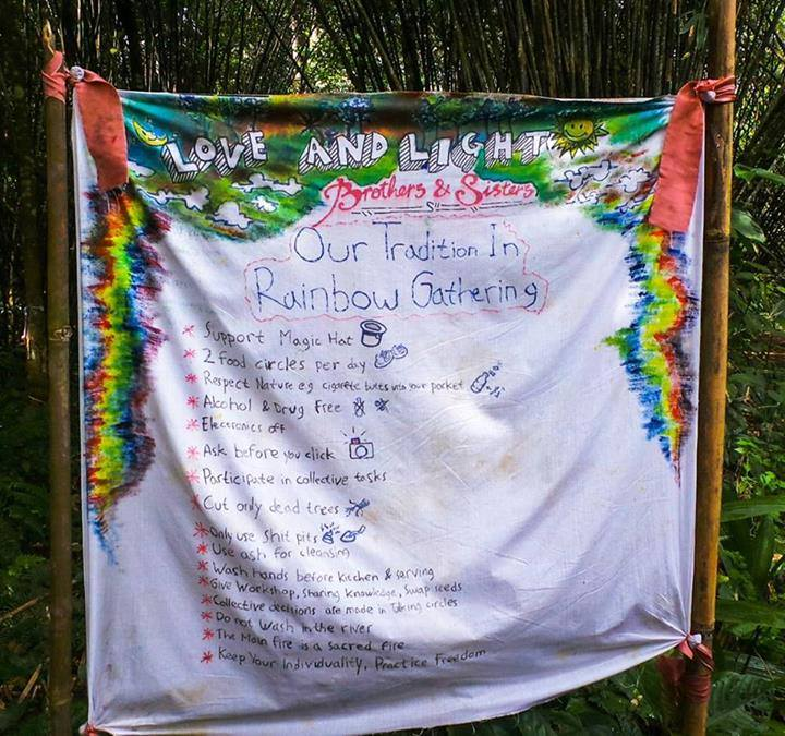 Our Tradition at Rainbow Gathering Borneo, Indonesia